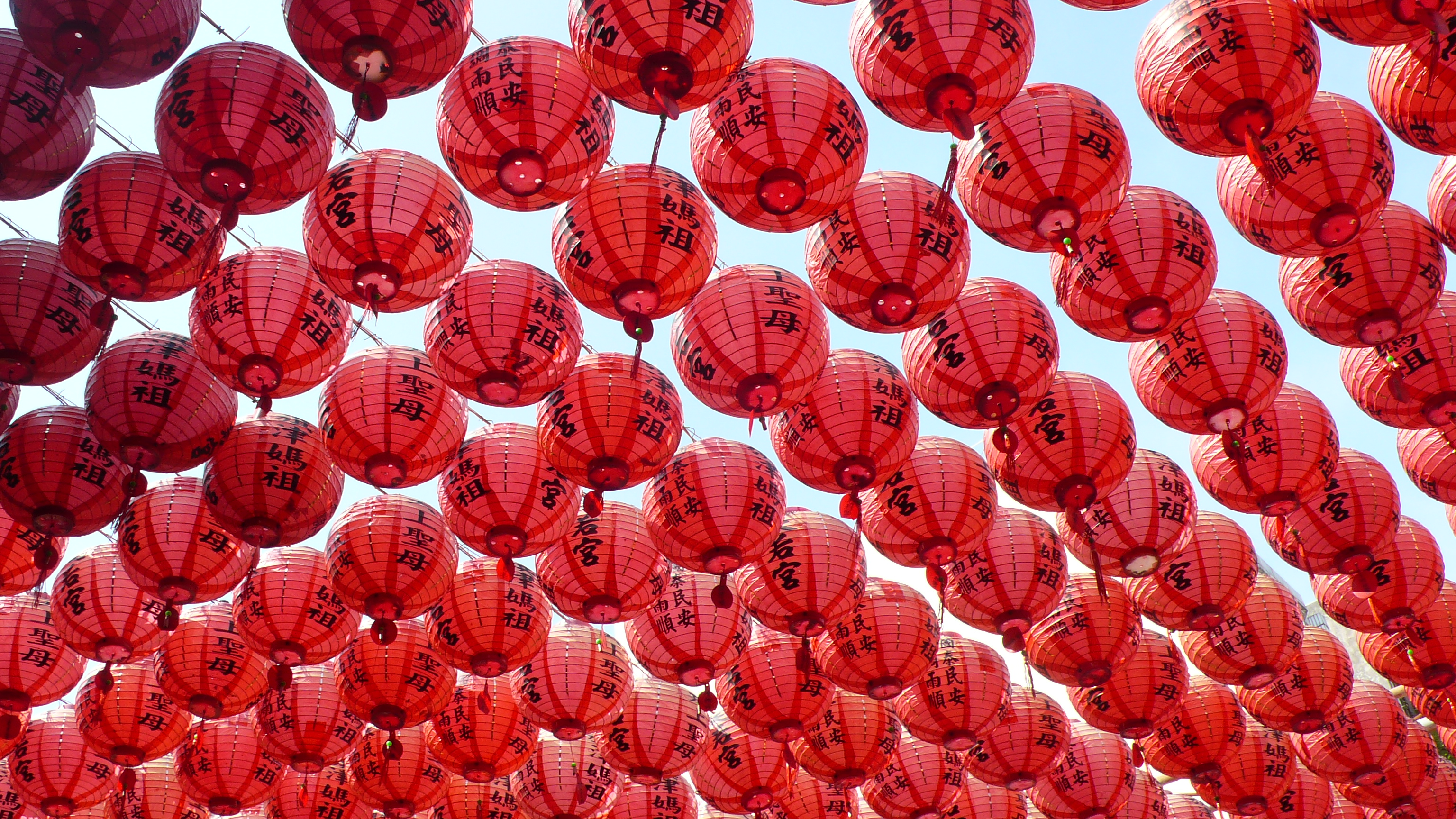 Lanterns in Qihou Tianhougong,Kaohsiung